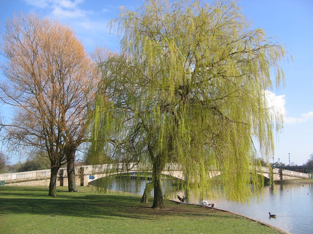 East Park, Hull, East Riding of Yorkshire, England.Looking across the lake to the recently renovated bridge